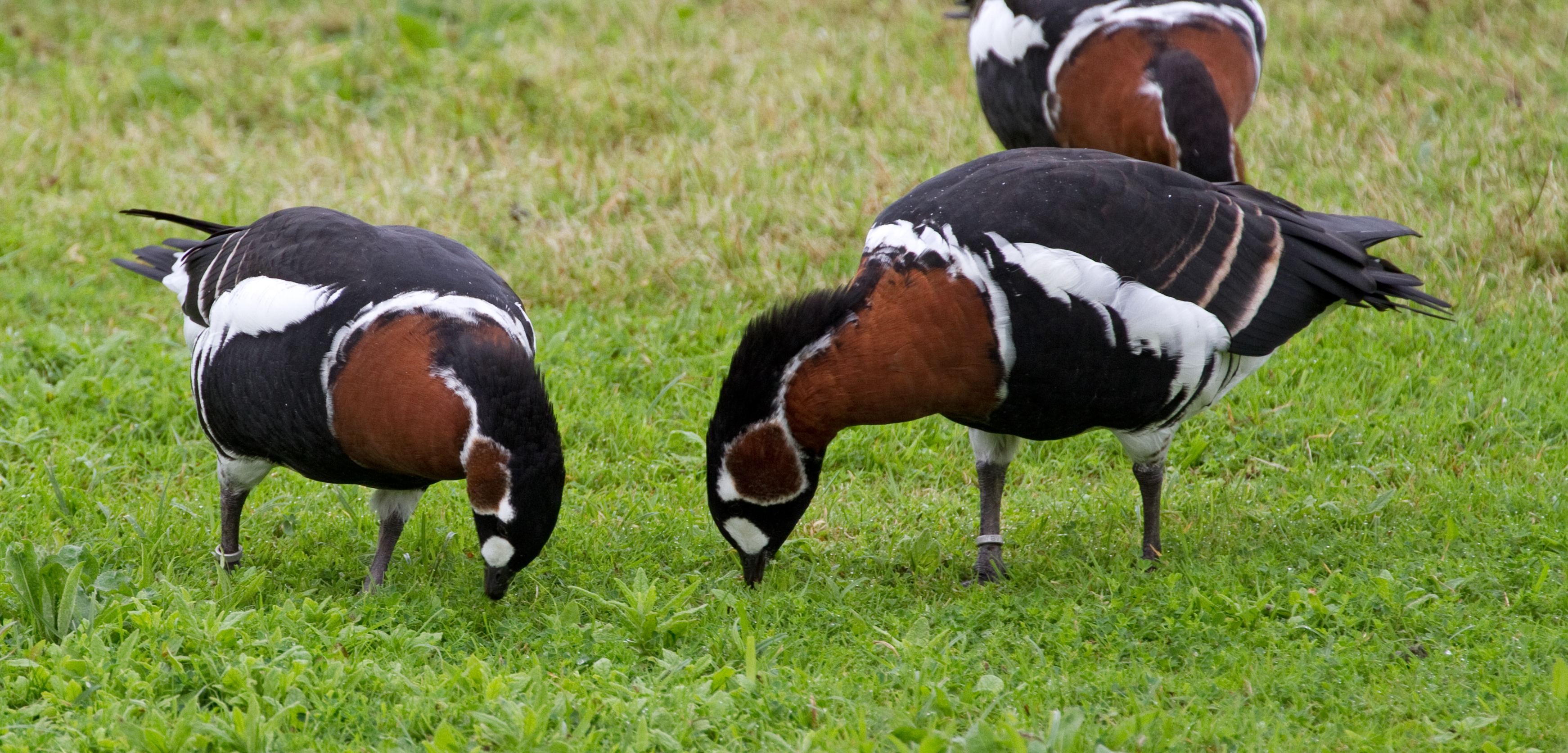 Red-breasted Geese